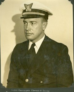 Lieut. Commander (later admiral) Edward H. Smith in Washington, D.C. assigned to participate in the Graf Zeppelin polar flight